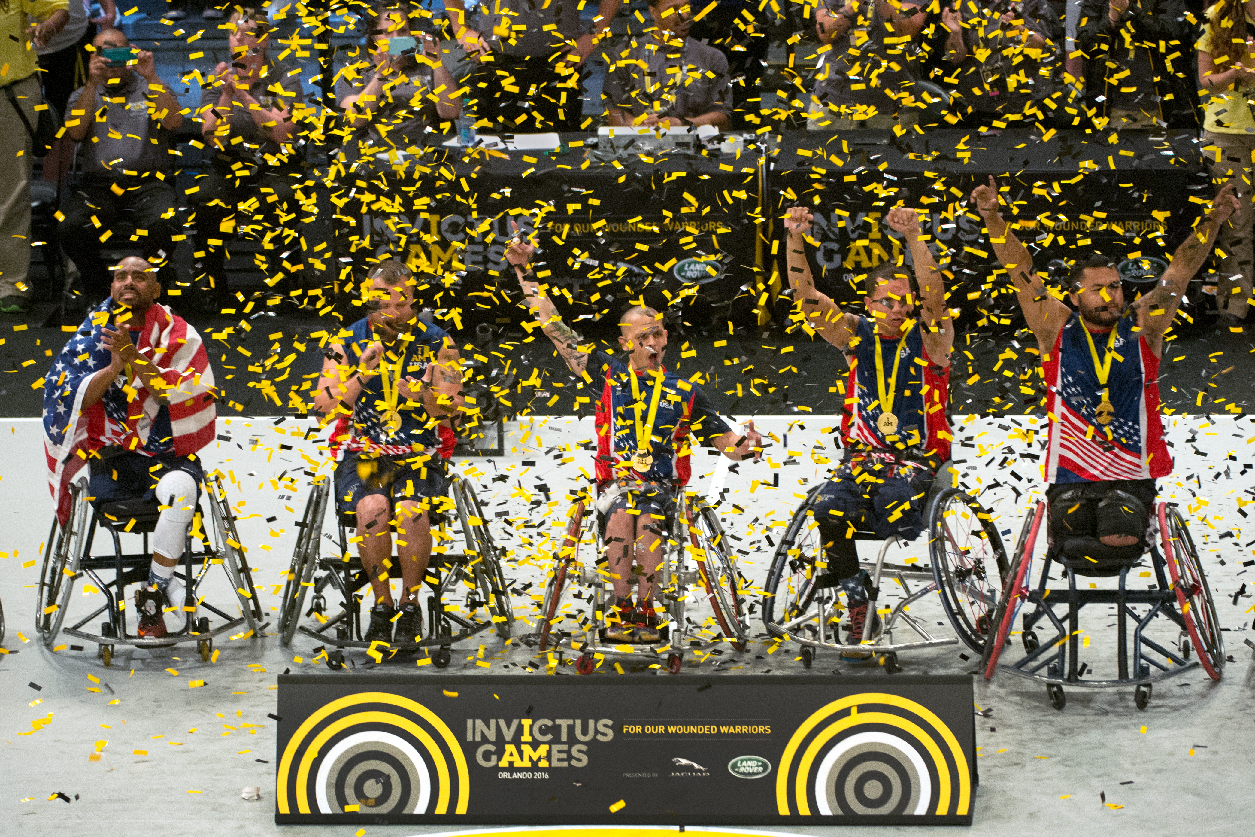 U.S. Invictus wheelchair basketball team members celebrate their gold medal win during the 2016 Invictus Games in Orlando, Fla. May 12, 2016. (DoD photo Edward Joseph Hersom II)